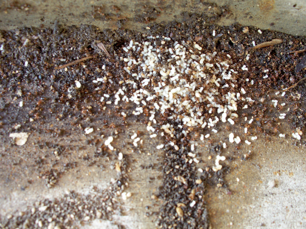 Fire ants work feverishly to rescue their eggs from the poisoned mound